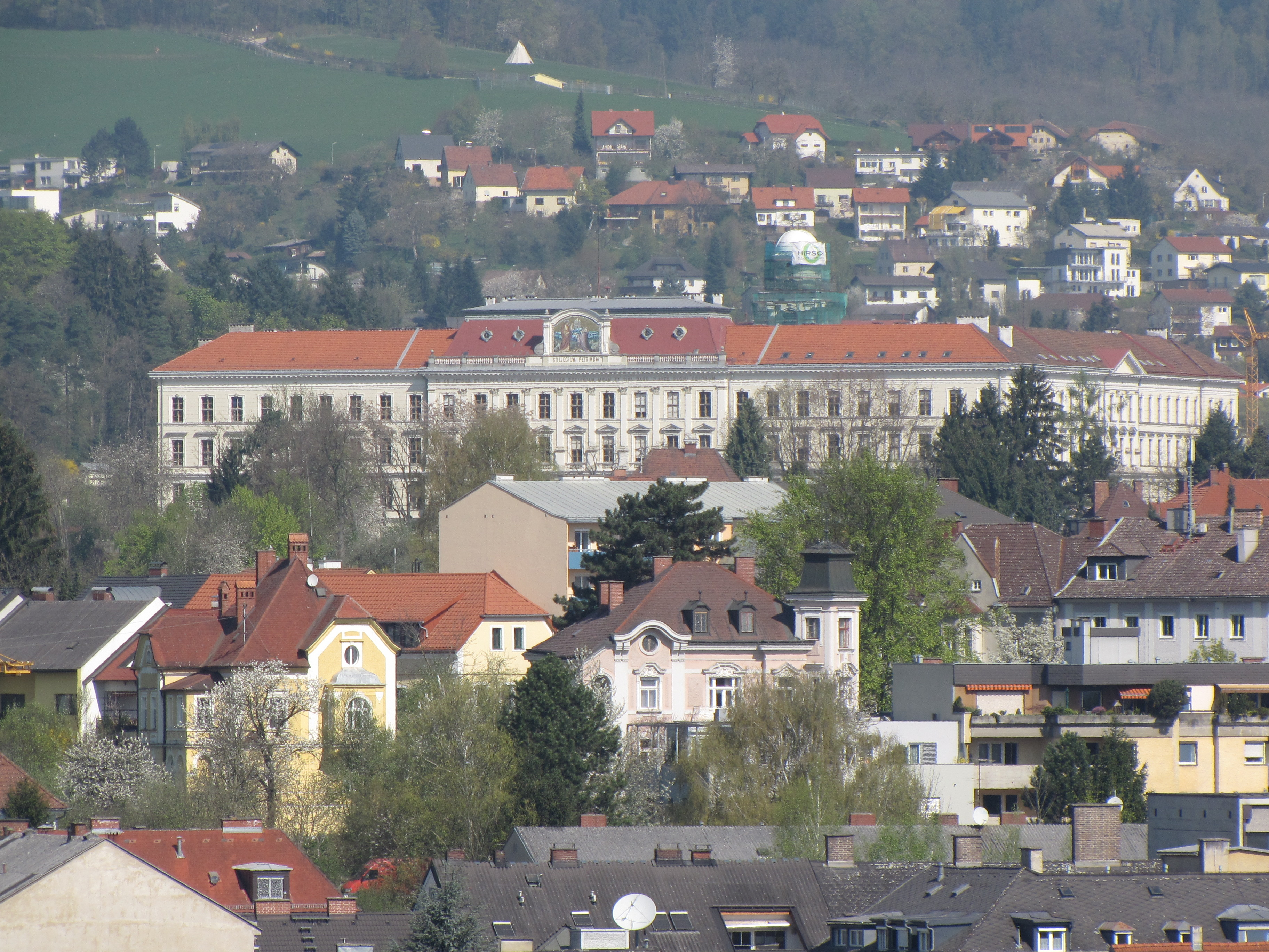 Petrinum Linz, view from the Schlossberg